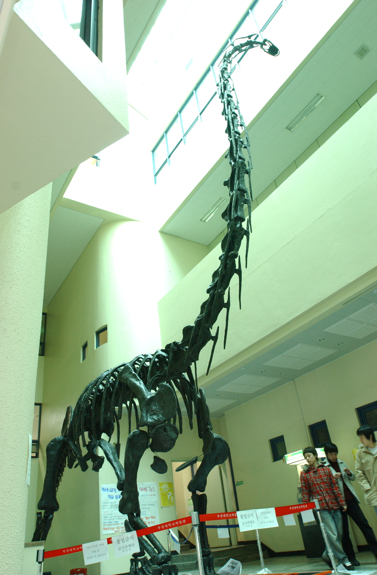 Pukyongosaurus Skeleton